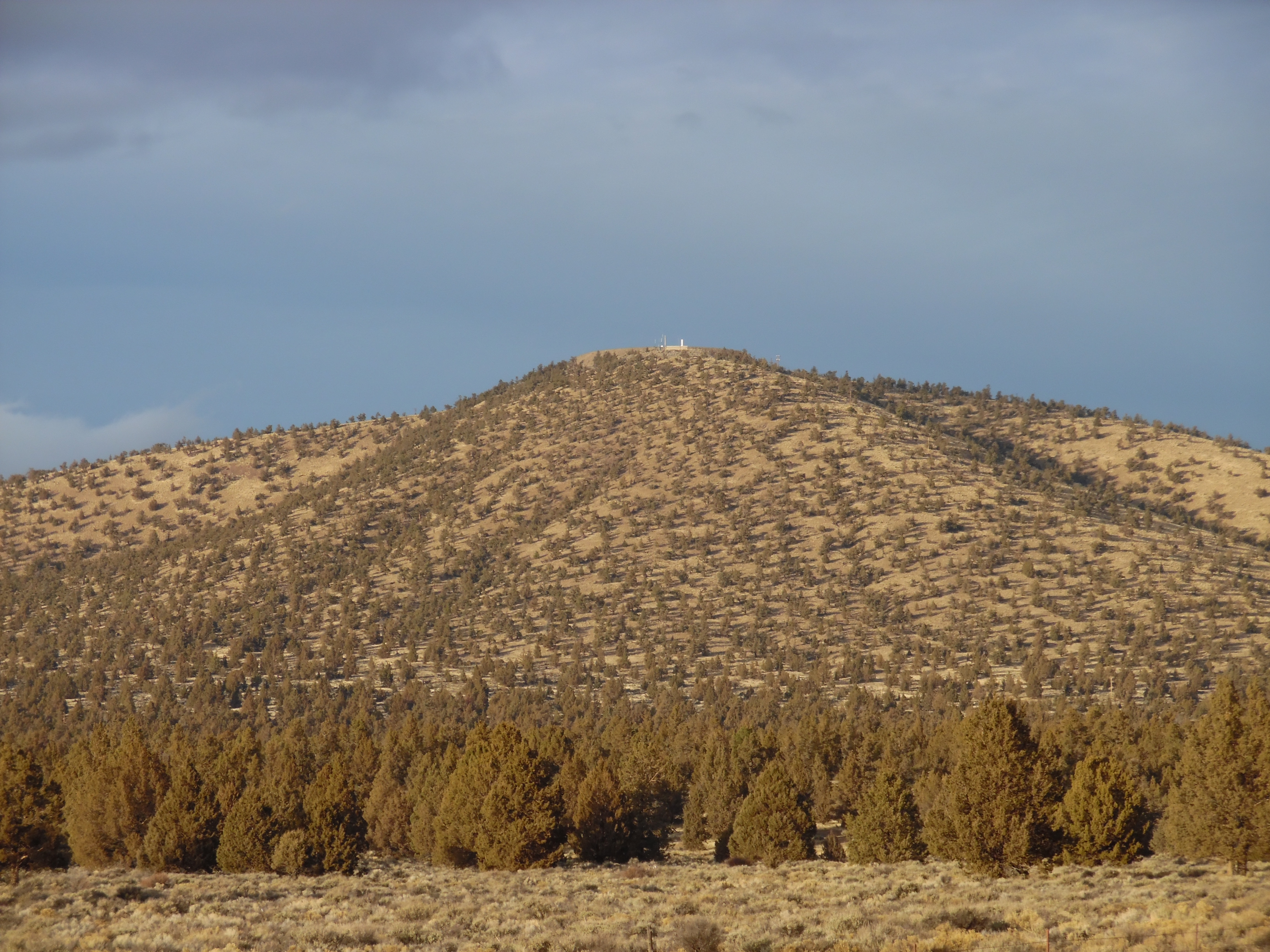 Southern peak of Cline Buttes in Deschutes County in central Oregon; FAA radio navigation beacon on the crest